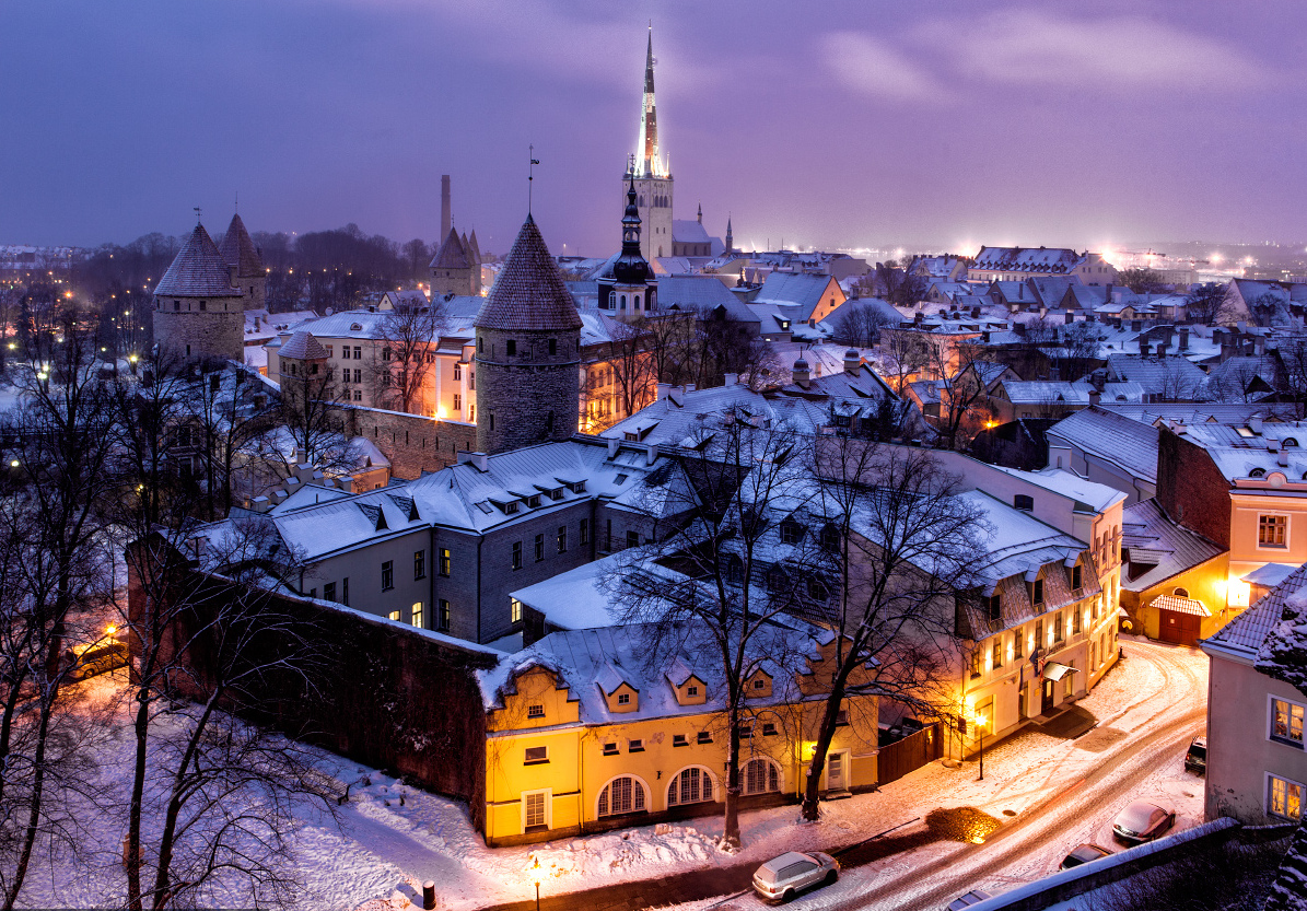 Tallinn